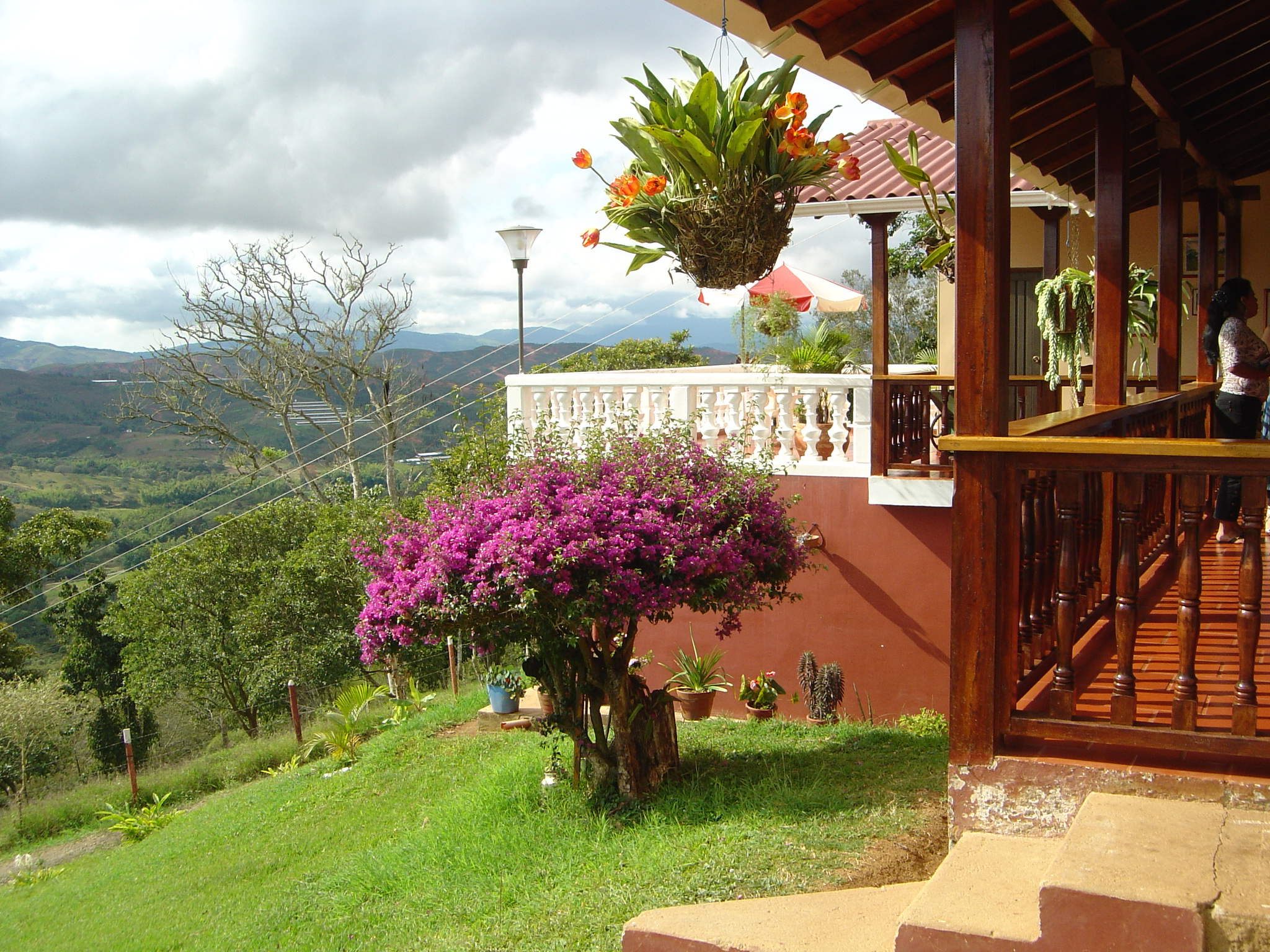 Finca El Tabor